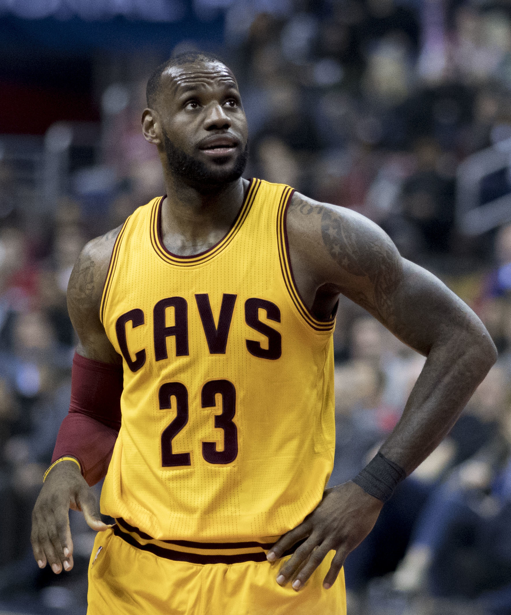 Cavaliers at Wizards 2/6/17